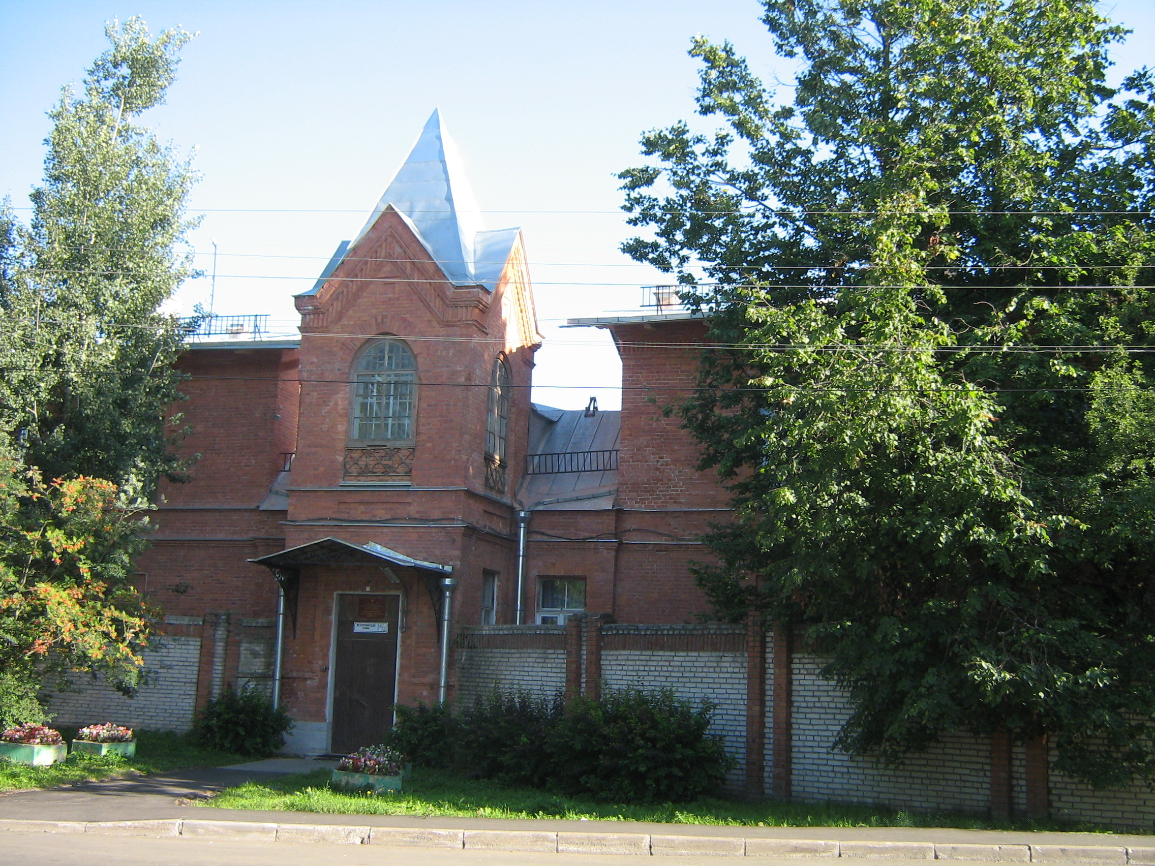 Saint Petersburg (Russia), Petergof.